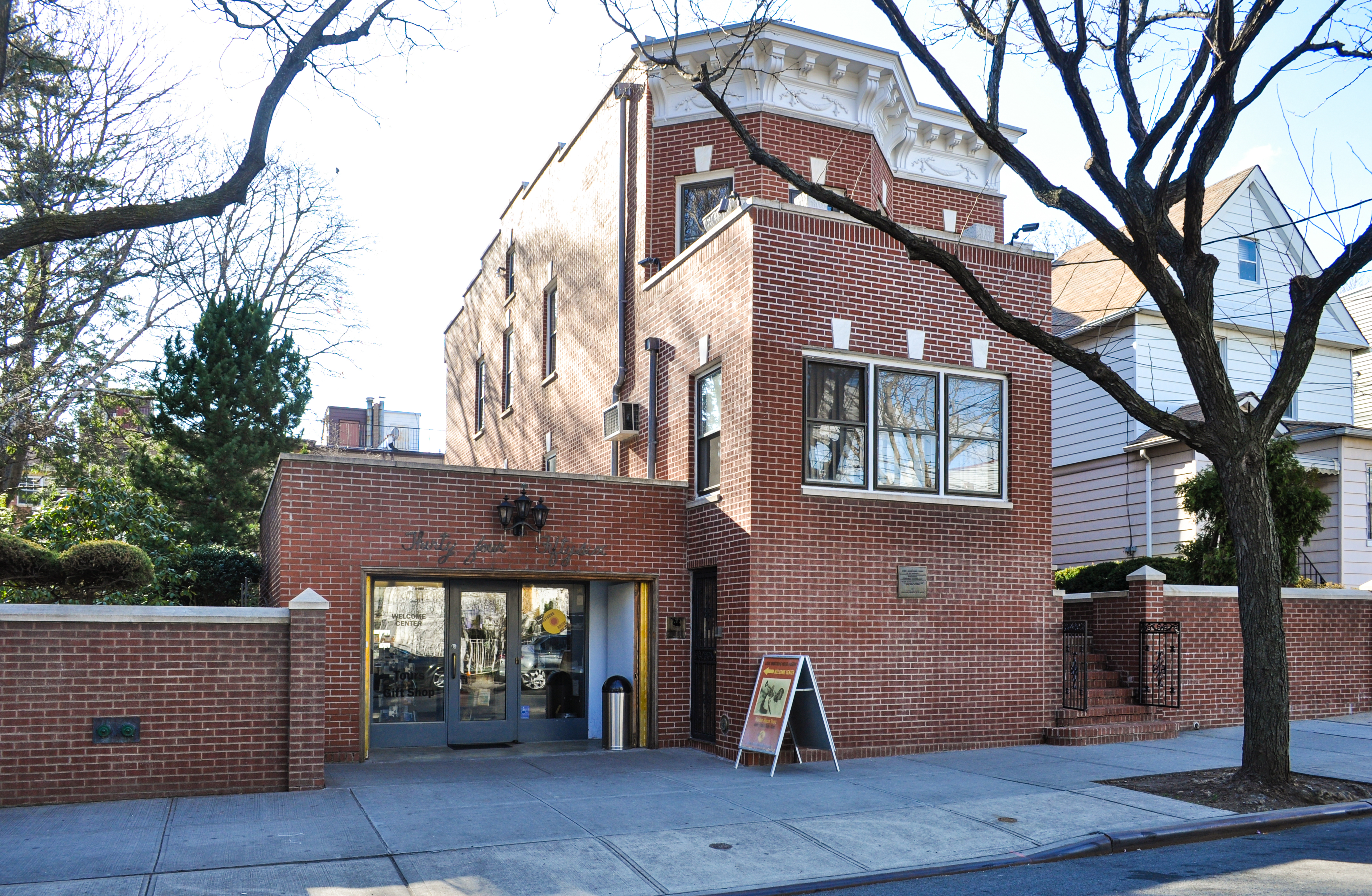 Louis Armstrong House, now a museum, 34-56 107 St., Corona, Queens, NY.